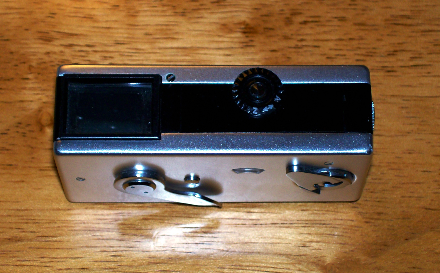 Edixa 16M camera back side, showing lock and viewfinder